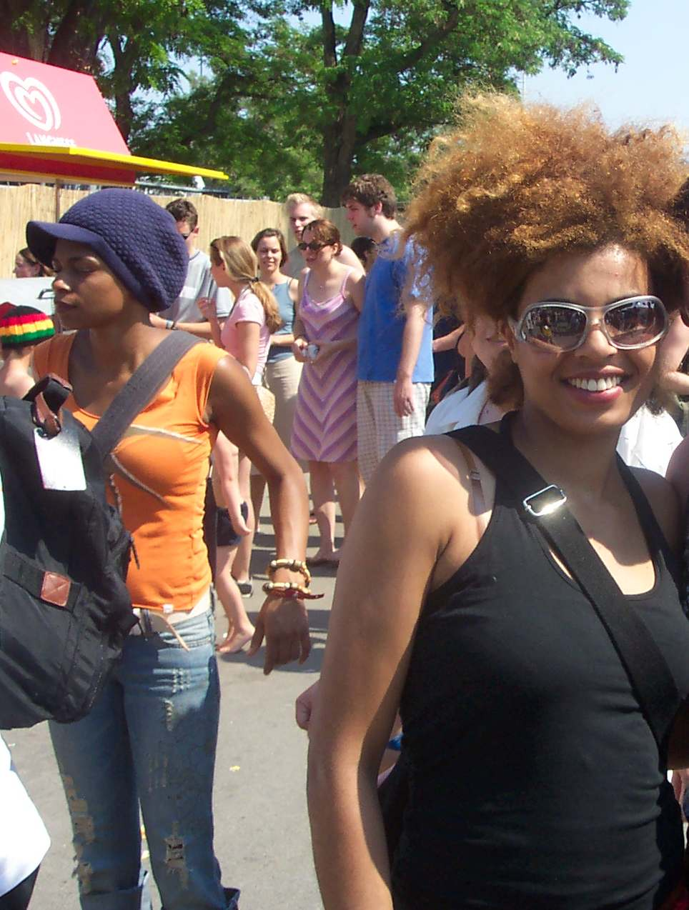 Mamadee (and in the background the American soul and reggae singer Tamika) at the Africa Festival in Würzburg, Germany in May 2005